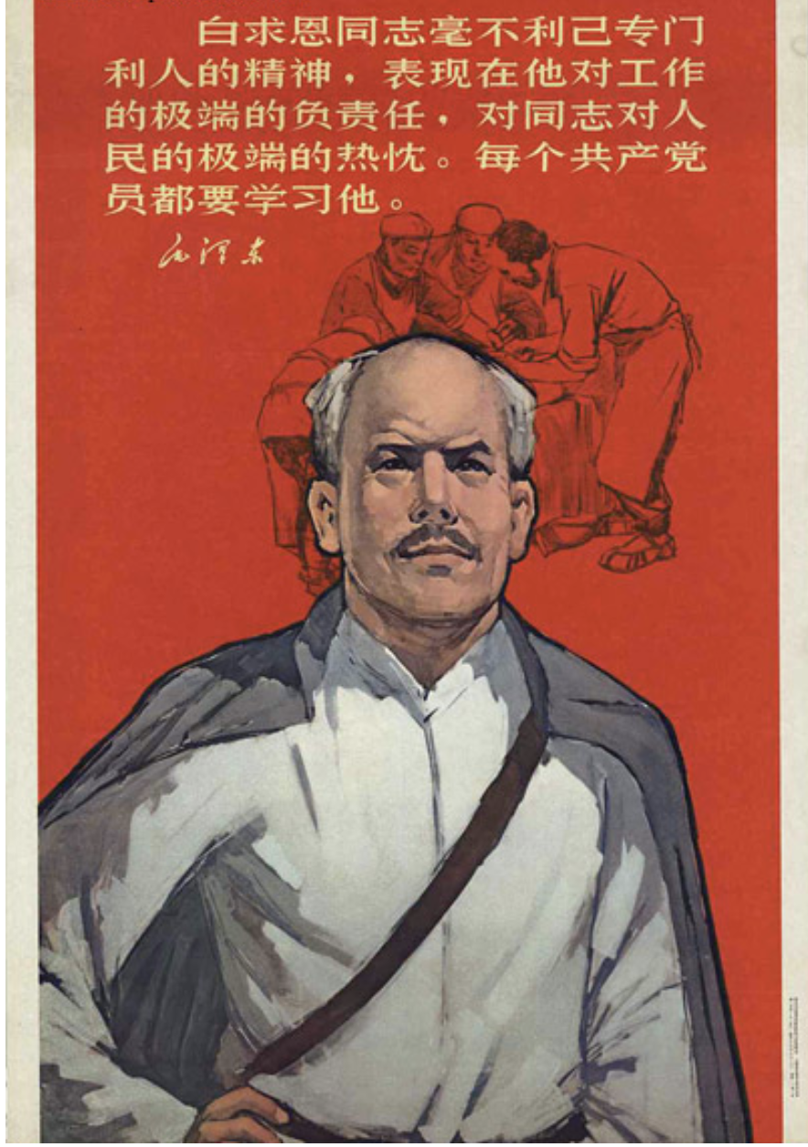 Chinese propaganda poster from March 1968 depicting Dr. Norman Bethune with a quotation from Mao Zedong: "Comrade Bethune's unselfish spirit expresses his extreme feeling of responsibility towards his work and his extreme warmheartedness towards comrades and the people. Every Communist Party member must learn from him."